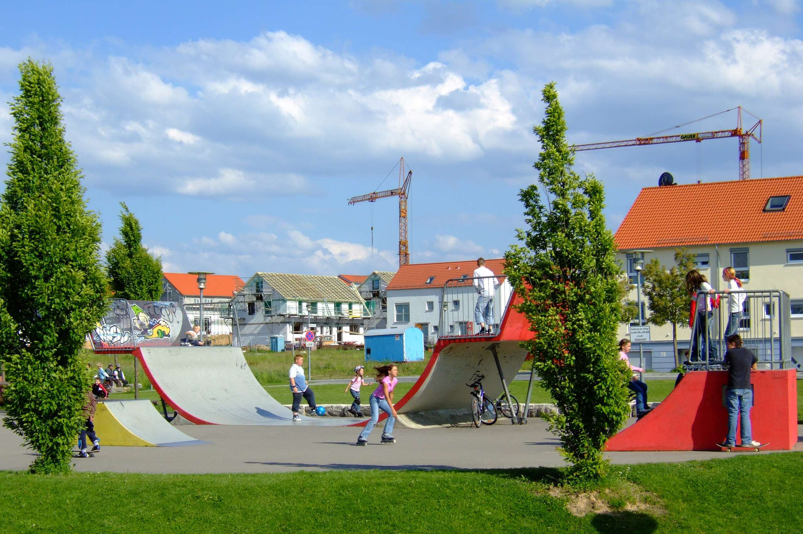 Skateboard Ground And Developing Area (Background) of NSU-Amorbach II